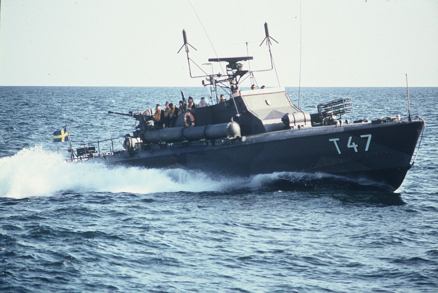 (Swedish Motor Totpedo Boat T 47)